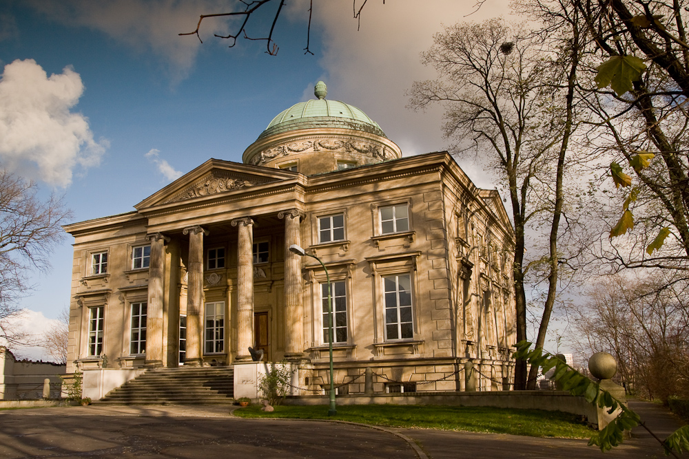 Królikarnia Palace in Warsaw